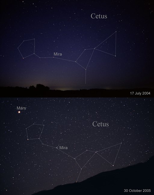 Compare the variable star Mira in the constellation of Cetus at two different times.